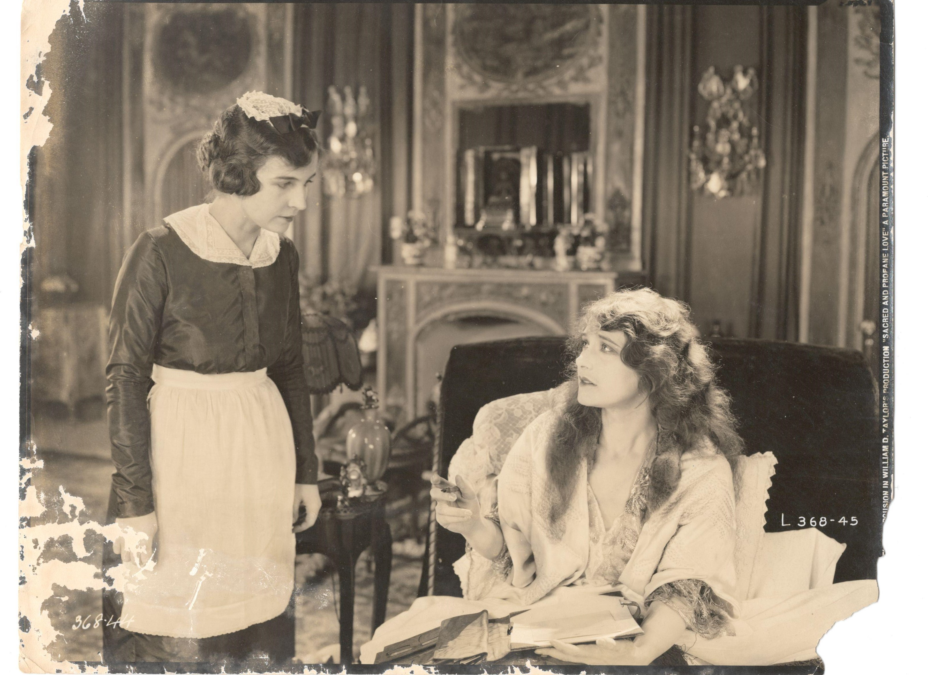 Elsie Ferguson and Barbara Gurney (1894 – 1997) in a production still from the film Sacred and Profane Love (1921). Gurney is uncredited as a parlor maid.